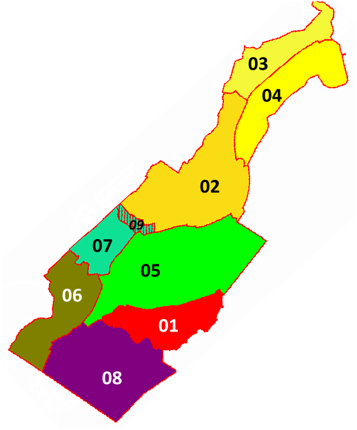 New division of Monaco following the Ordonnance Souveraine 4.481 (13 septembre 2013)